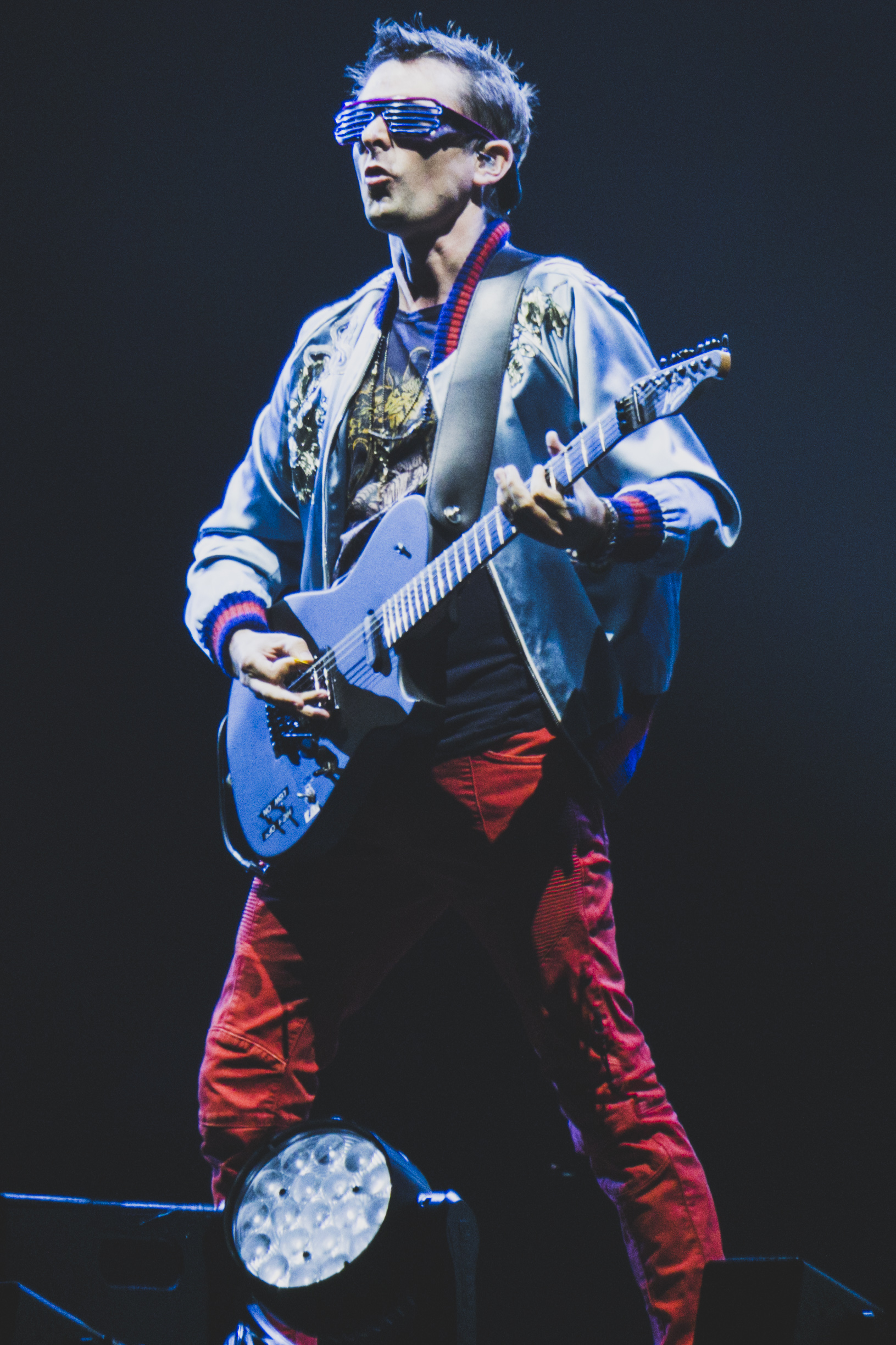 Performance of the English rock band Muse at Reading Festival 2017.